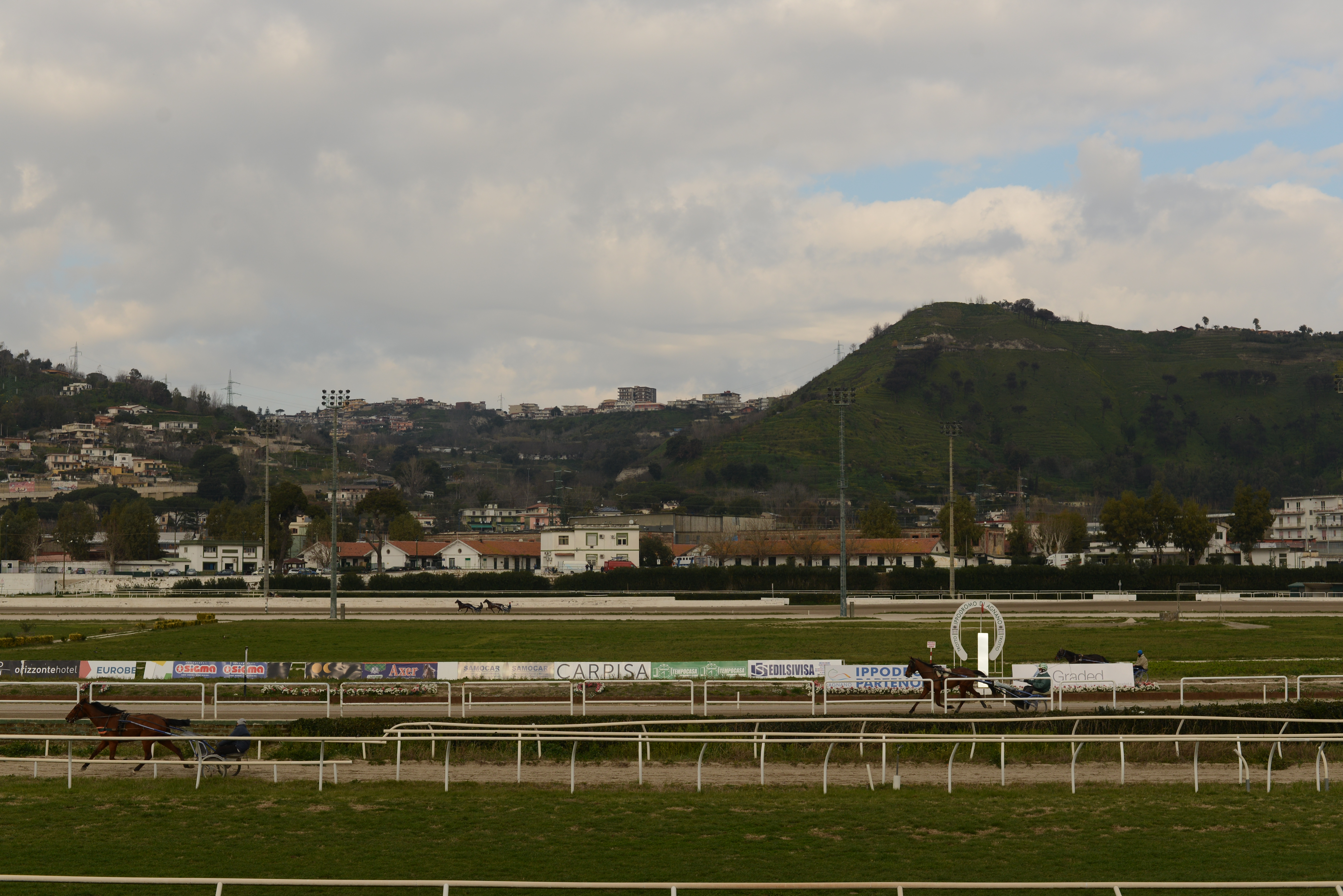 Agnano Racecourse